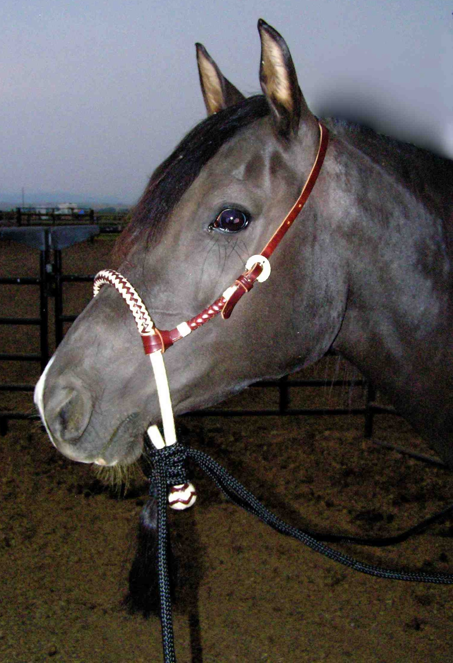 A young Arabian mare wearing a bosal style hackamore. Note hackamore is show style, with synthetic mecate and no fiador, also is brand-new and has not yet been custom-fitted to the horse. Note also the horse is actually a black, photo taken at twilight with a flash.